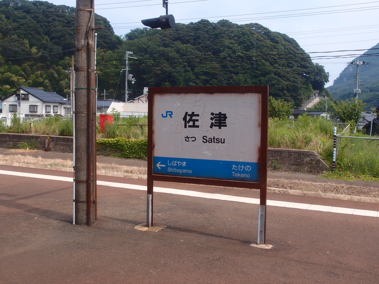 The running in board of Satsu Station in Japan.